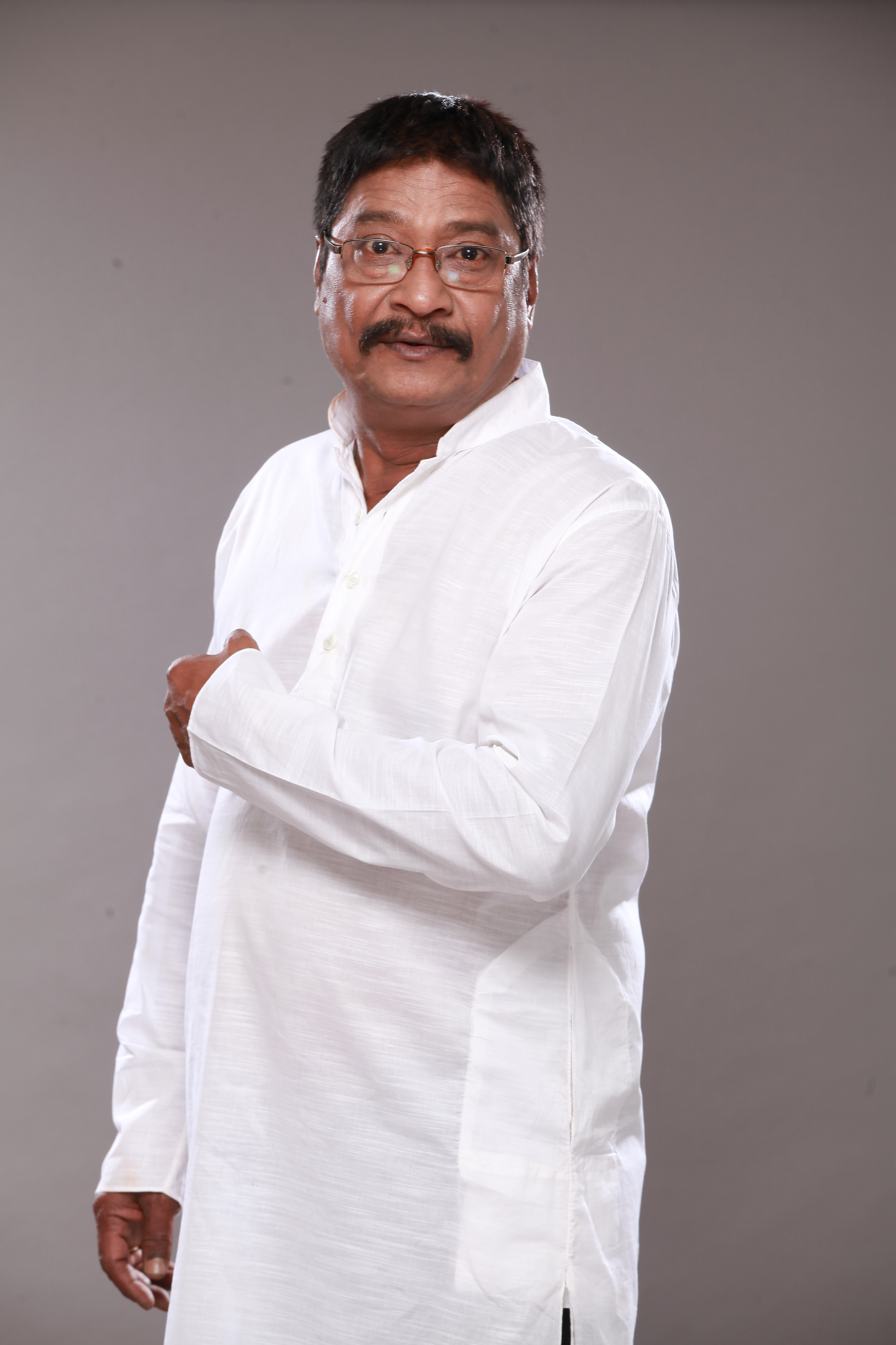 ଓଡ଼ିଆ: Minaketan Das, Odia actor